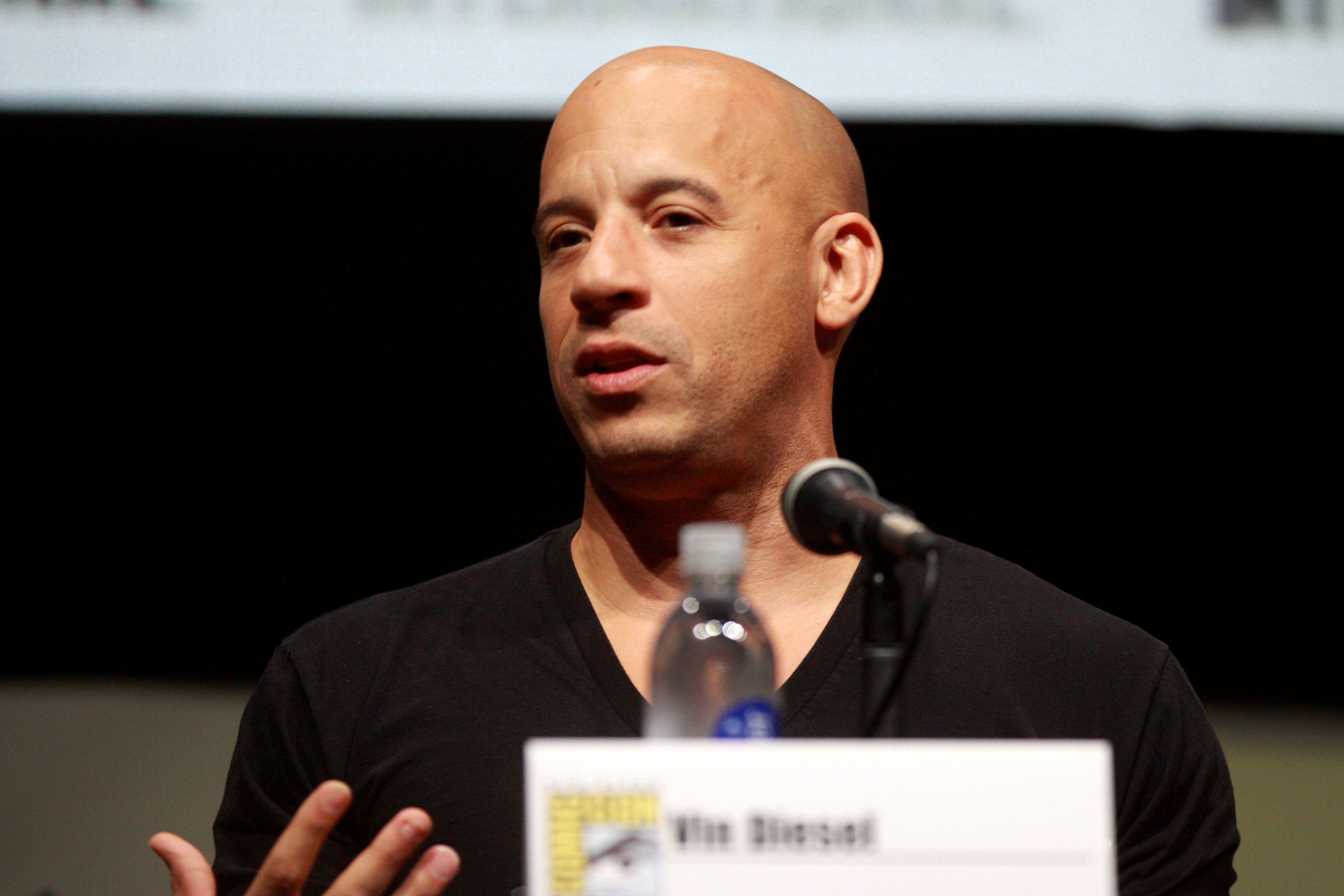 Vin Diesel speaking at the 2013 San Diego Comic Con International, for "Riddick", at the San Diego Convention Center in San Diego, California.